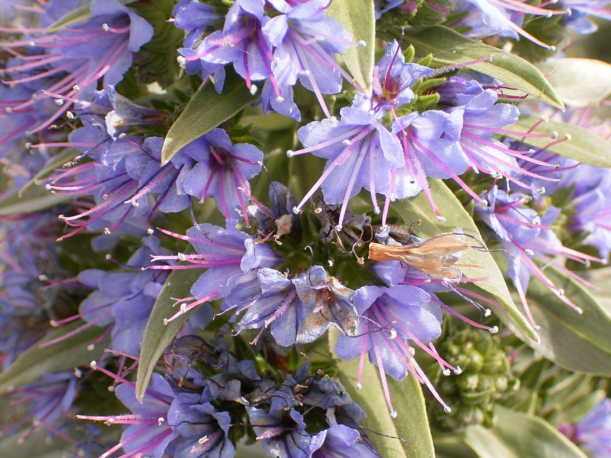 Echium webbii growing in Puntallana, La Palma, Canary Islands